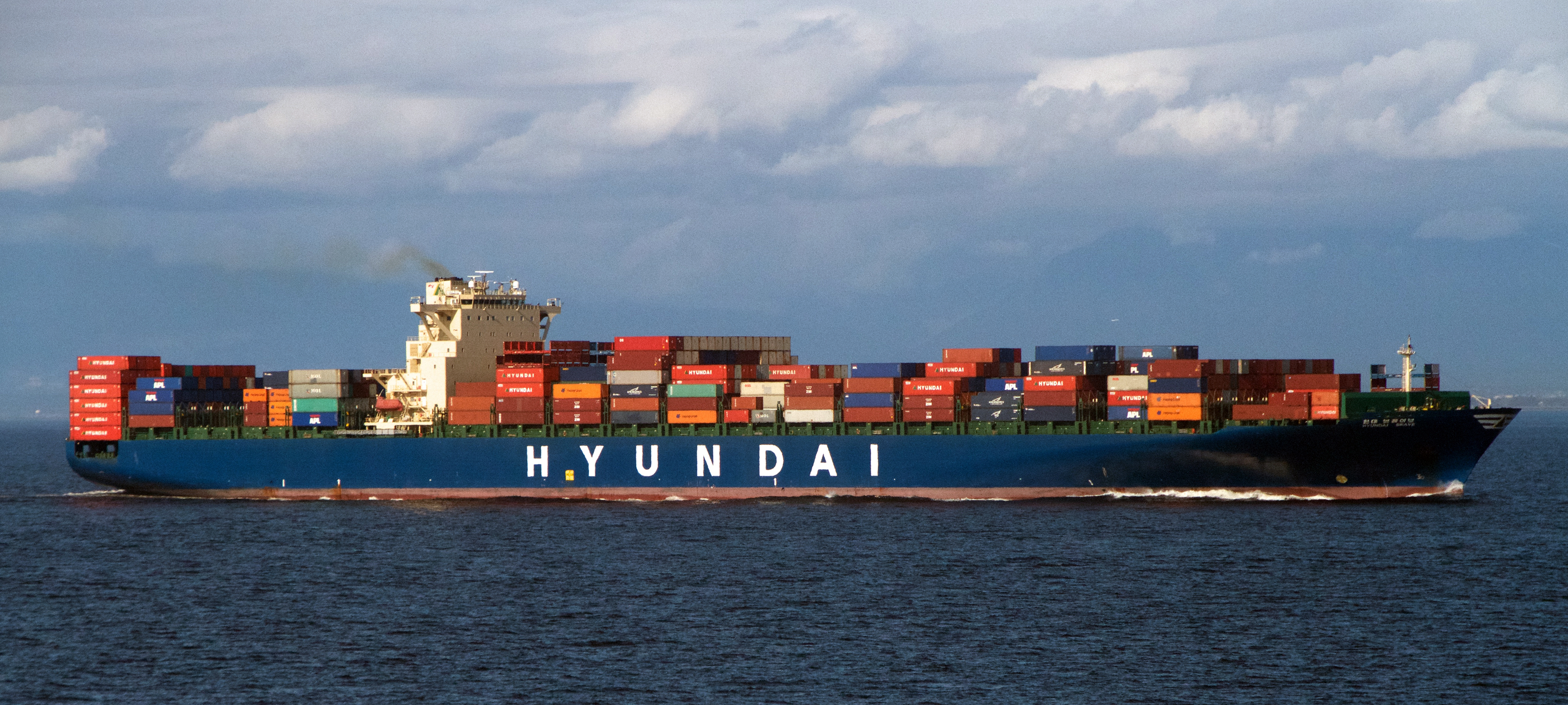 Container ship Hyundai Brave in Vancouver